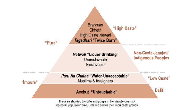 The Muluki Ain caste/ethnicity hierarchy of Nepal, 1854